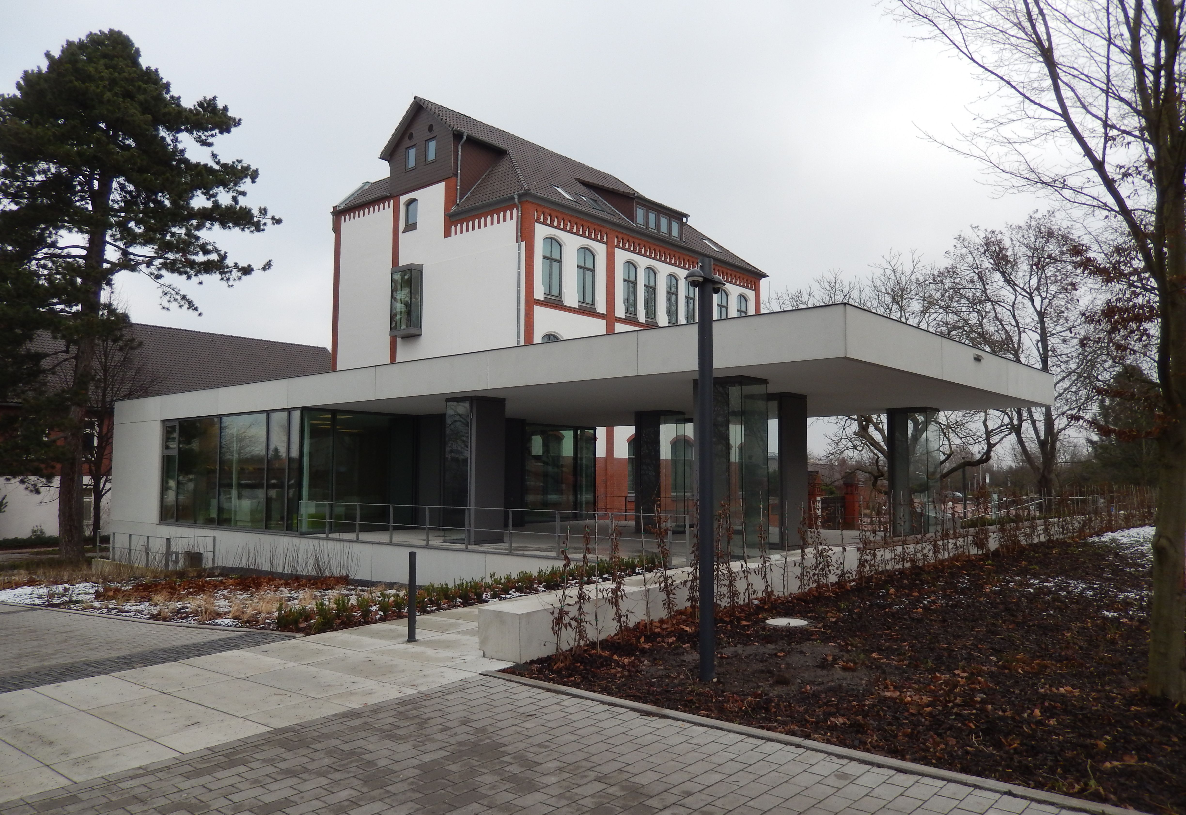 Gedenkstätte Ahlem. Memorial in Hannover, Germany.